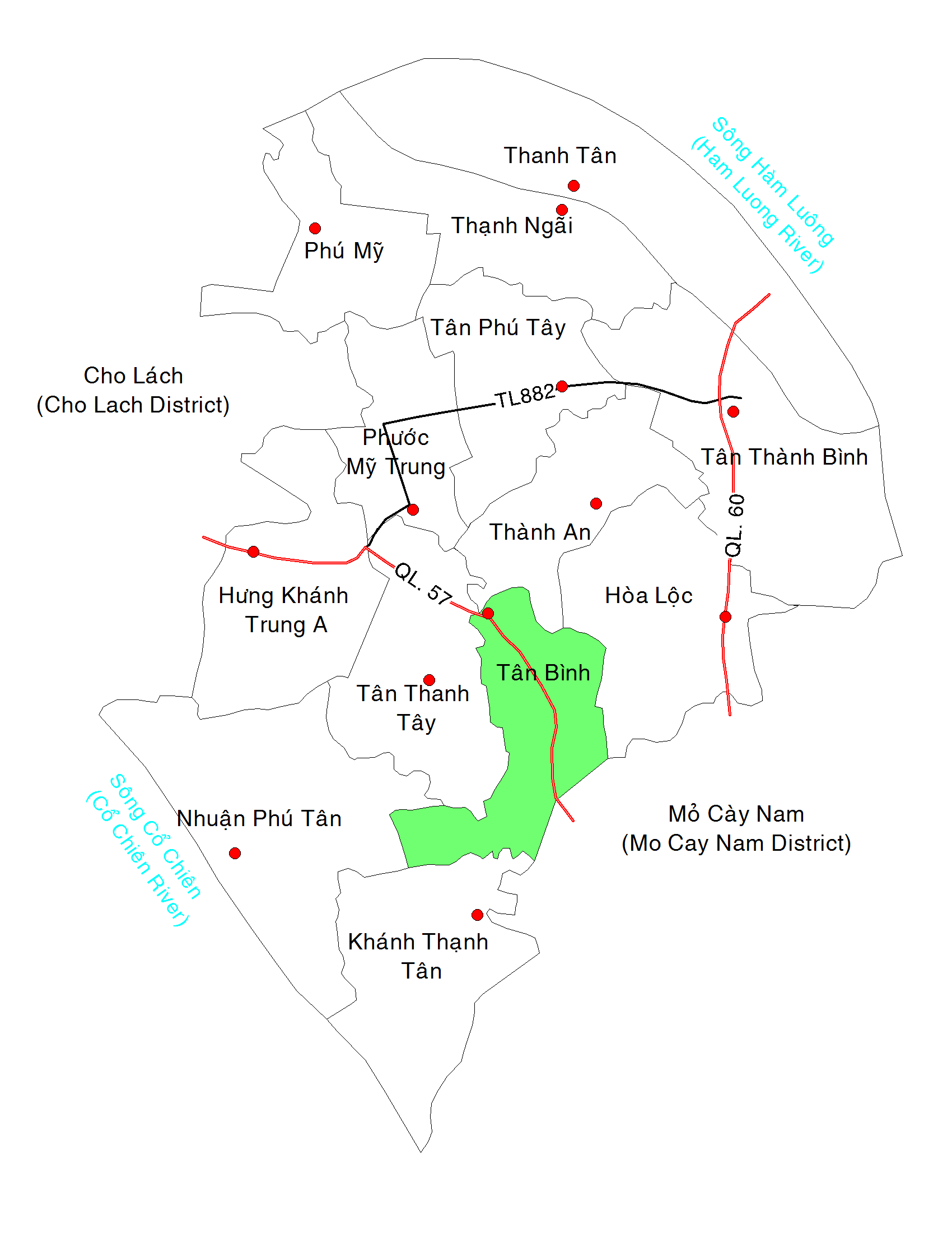 Locaiton map of Tân Bình commune, Mo Cay Bac District, Ben Tre province, Vietnam